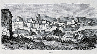 Grabado_Historia_de_Teruel_-_Pedro_Pruneda